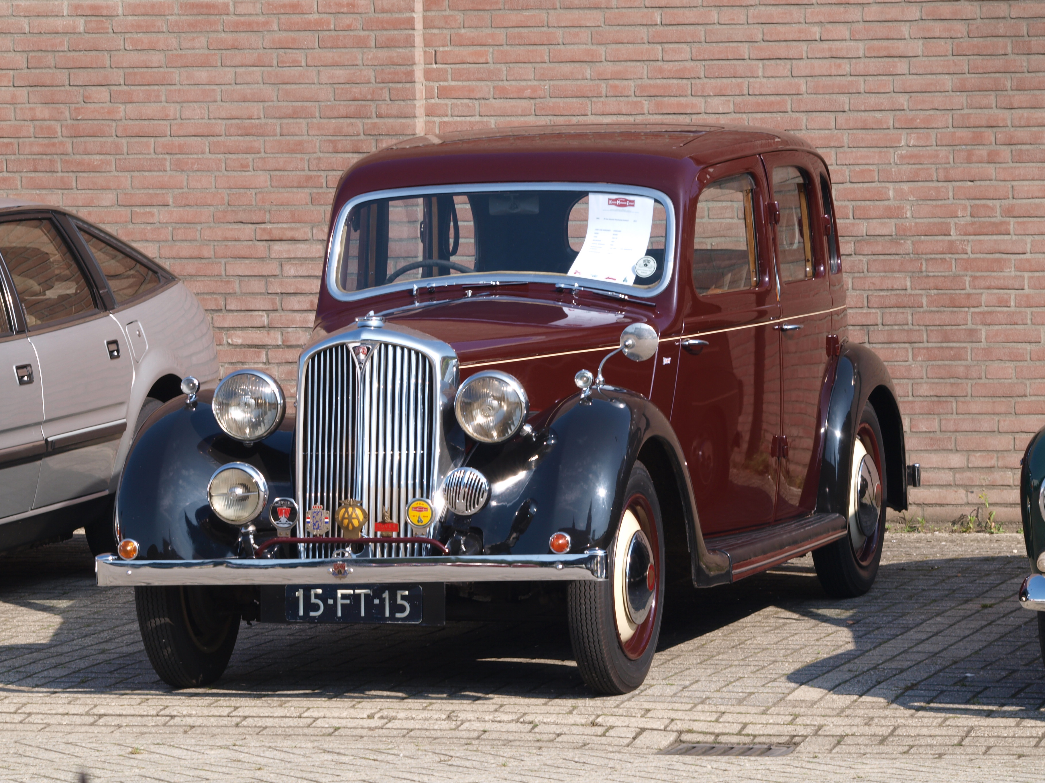 Photographed at the Classic Vehicle meeting 'Klassiek Mechaniek Zeeland 2011', The Netherlands.